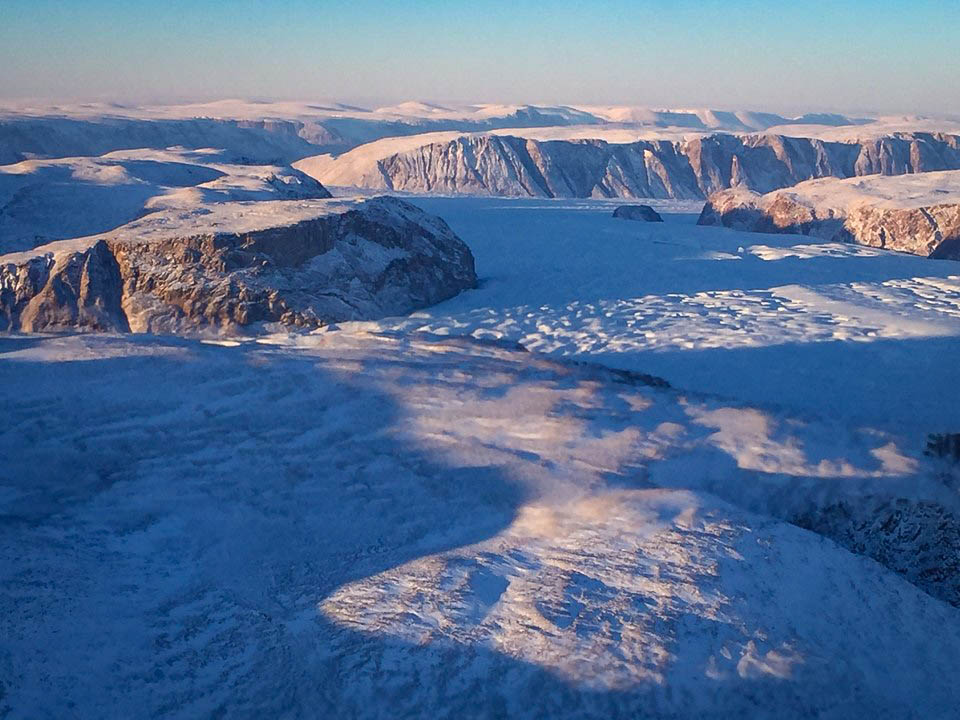 Leidy Glacier in northwest Greenland, as seen during an Operation IceBridge flight on Mar. 22, 2017. CREDIT: NASA/Nathan Kurtz The 2017 field season was record-breaking for Operation IceBridge, NASA’s aerial survey of the state of polar ice. For the first time in its nine-year history, the mission, which aims to close the gap between two NASA satellite campaigns that study changes in the height of polar ice, carried out seven field campaigns in the Arctic and Antarctic in a single year. In total, the IceBridge scientists and instruments flew over 214,000 miles, the equivalent of orbiting the Earth 8.6 times at the equator. The mission of Operation IceBridge, NASA’s longest-running airborne mission to monitor polar ice, is to collect data on changing polar land and sea ice and maintain continuity of measurements between ICESat missions. The original ICESat mission launched in 2003 and ended in 2009, and its successor, ICESat-2, is scheduled for launch in the fall of 2018. Operation IceBridge began in 2009 and is currently funded until 2020. The planned overlap with ICESat-2 will help scientists connect with the satellite’s measurements. Read more: For more about Operation IceBridge and to follow future campaigns, visit: NASA image use policy NASA Goddard Space Flight Center enables NASA’s mission through four scientific endeavors: Earth Science, Heliophysics, Solar System Exploration, and Astrophysics. Goddard plays a leading role in NASA’s accomplishments by contributing compelling scientific knowledge to advance the Agency’s mission. Follow us on Twitter Like us on Facebook Find us on Instagram